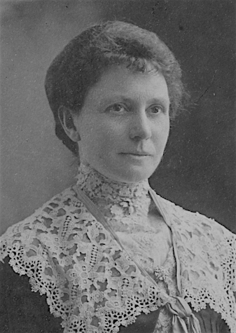 Photographic portrait of Pattie Deakin